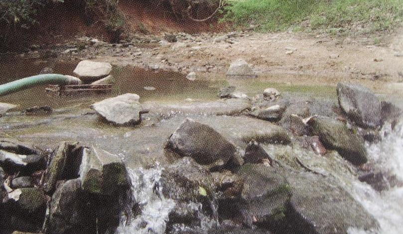 Jake Lowman, From Jake Lowman- personal camera, printed and scanned into computer